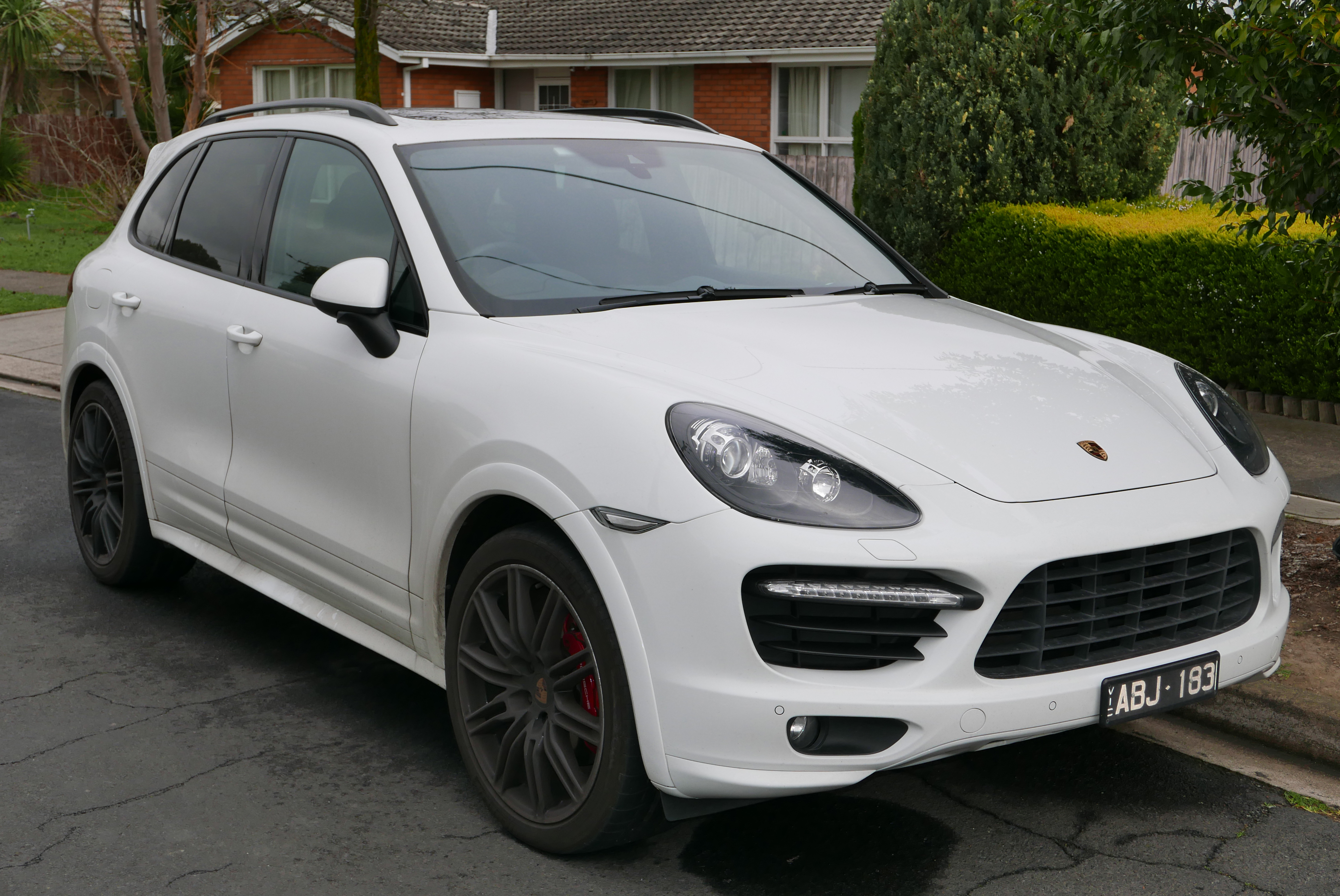 2014 Porsche Cayenne (92A MY14) GTS wagon. Photographed in Doncaster East, Victoria, Australia. Vehicle registration enquiry results Jurisdiction Victoria Registration ABJ183 Chassis code WP1ZZZ92ZELA75929 Engine code GE09821 Compliance date 2014-04 Year of manufacture 2014